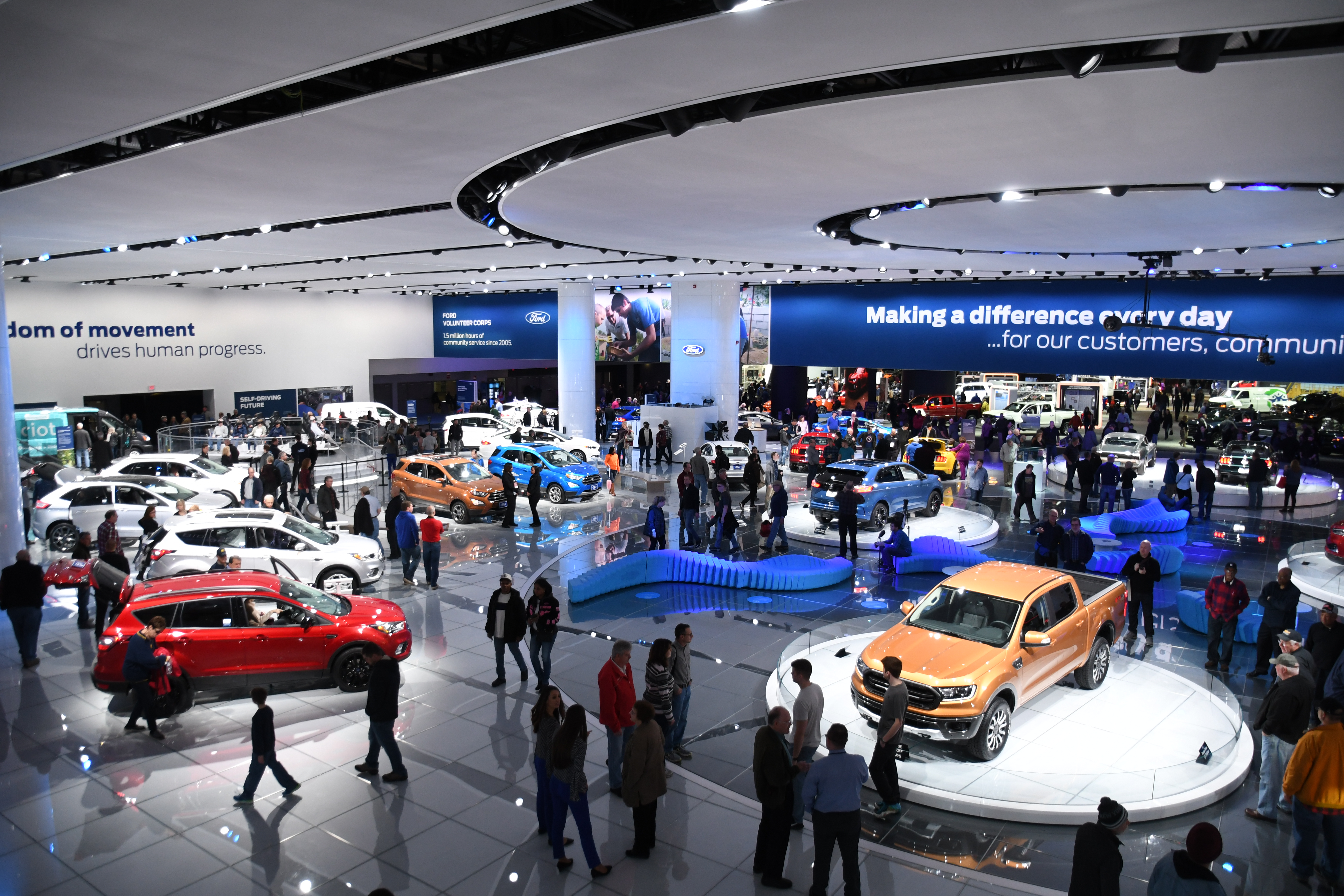 The view from the second floor of the Ford exhibit. A scene from public display days of the 2018 North American International Auto Show held in Cobo Center in downtown Detroit, Michigan. January, 2018